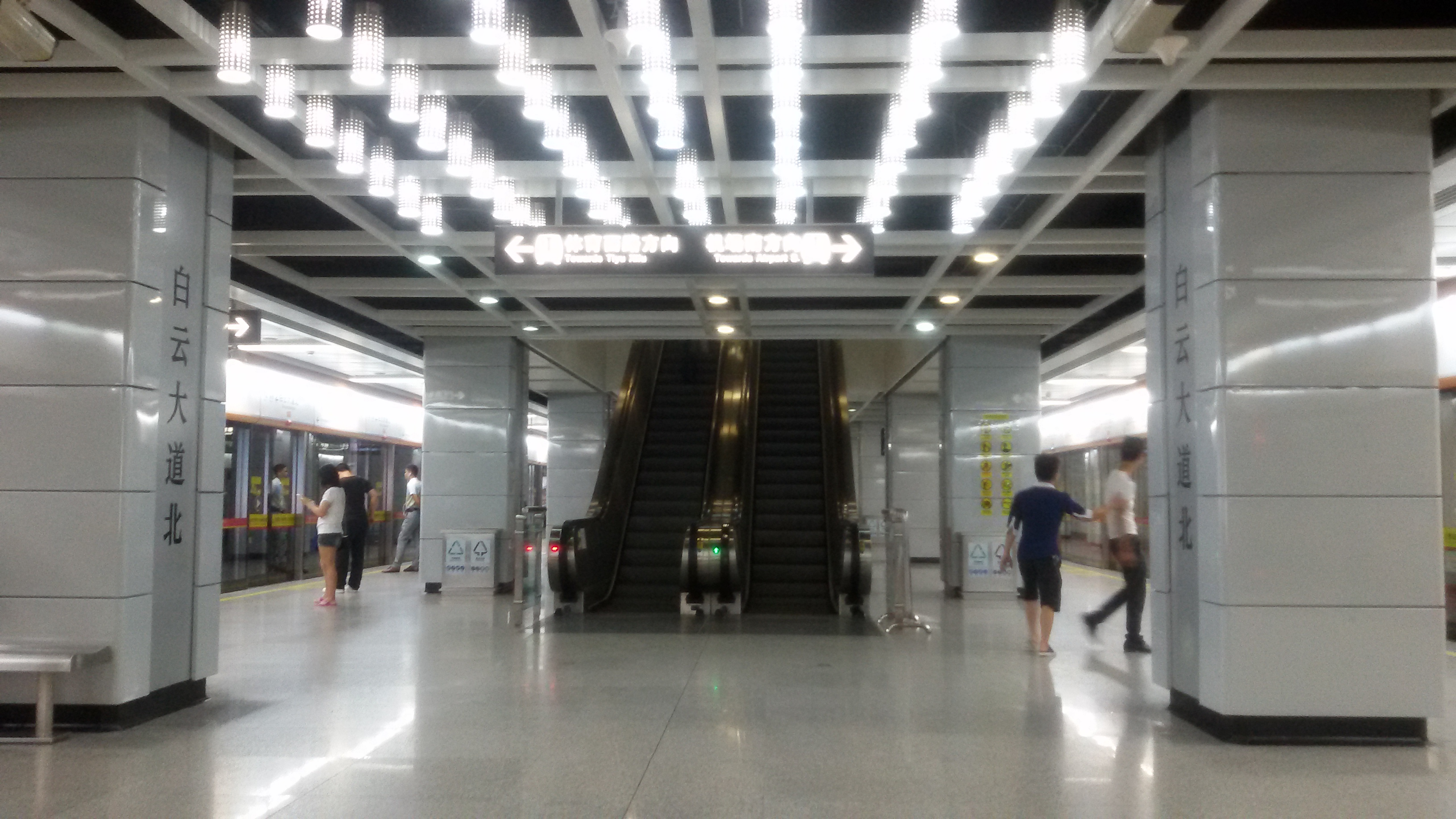 Station Platform for BaiyunDadaoBei Station, Guangzhou Metro.